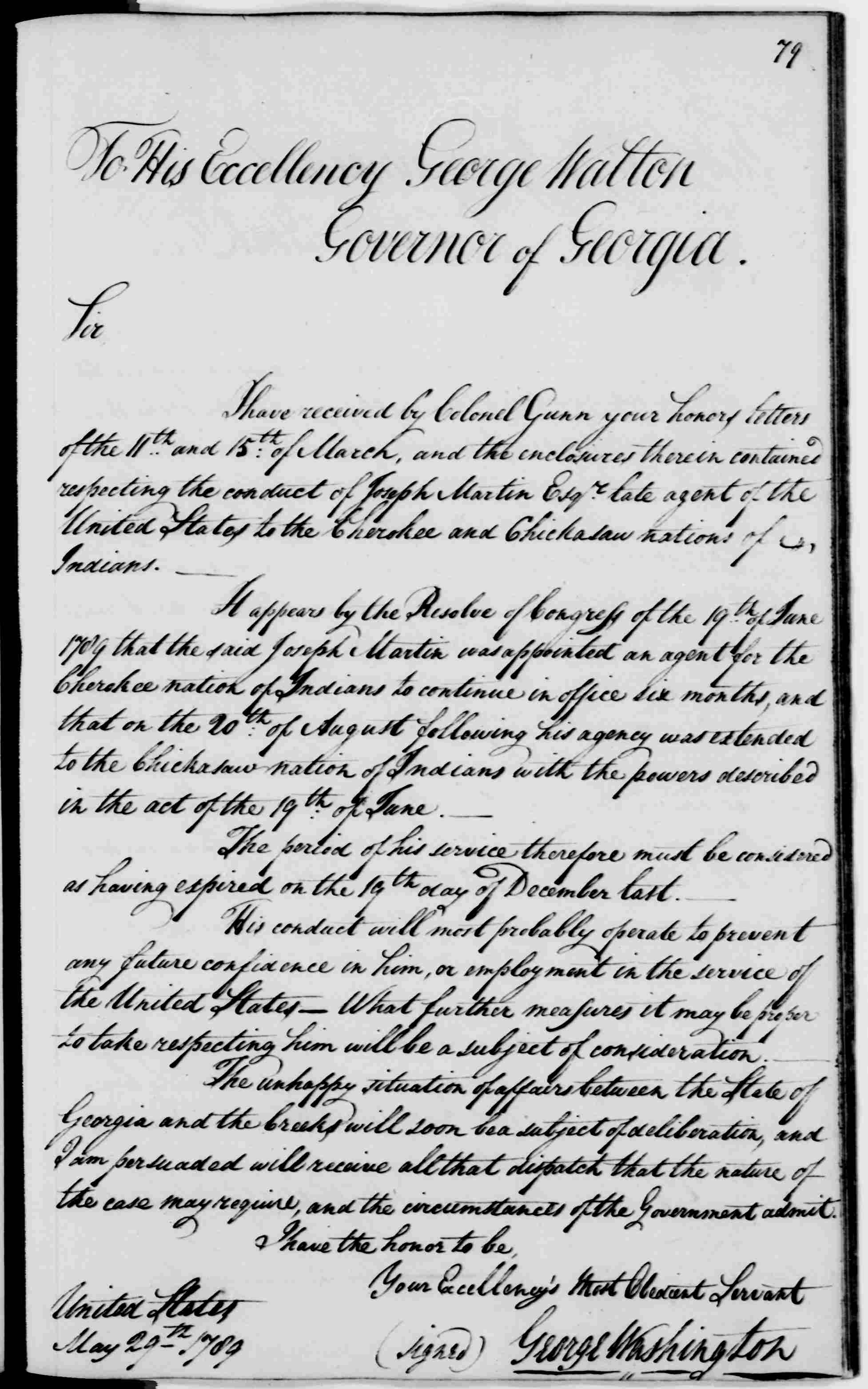 Letter from George Washington to Georgia Governor George Walton, mentioning General Joseph Martin, who Washington notes has been appointed "an agent for the Cherokee nation of Indians." [1] George Washington Papers at the Library of Congress, 1741-1799, Series 2 Letterbooks, Library of Congress, Washington, D.C.